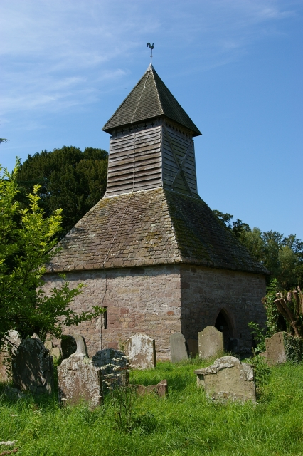 Free-standing bell tower of St Leonard's parish church, Yarpole, Herefordshire